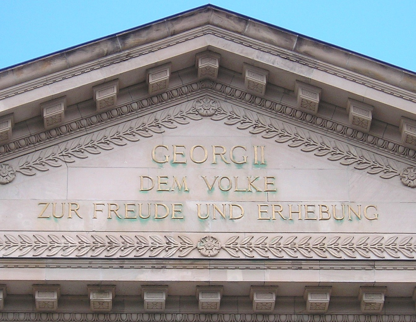 Inscription on gable of the theatre in Meiningen from Earl Georg II. of Sachsen-Meiningen. “This people to pleasure and amusement”